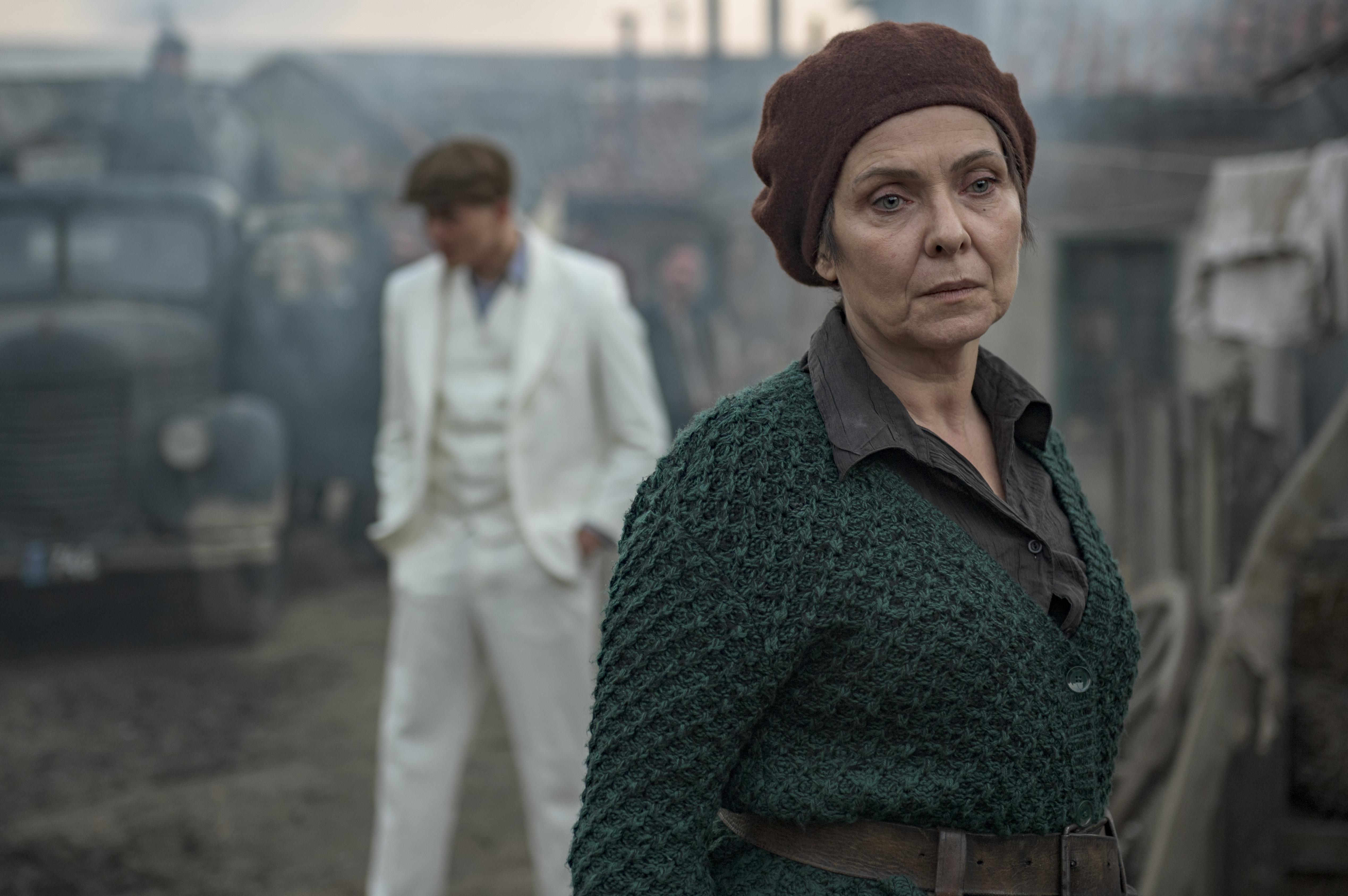 Vesna Trivalić in “Black Sun” (author: Aleksandar Letić)